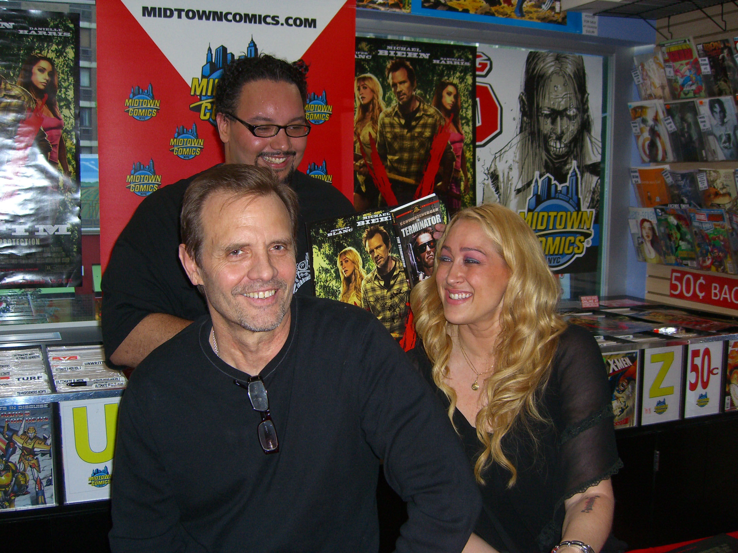 Actor/director Michael Biehn (The Terminator, Aliens, The Abyss) and his wife, actress Jennifer Blanc, posing with a fan during an August 23, 2012 appearance at Midtown Comics Downtown in Manhattan to promote Biehn’s directorial debut, the horror film The Victim, in which both Biehn and Blanc star. This photo was created by Luigi Novi. It is not in the public domain, and use of this file outside of the licensing terms is a copyright violation.